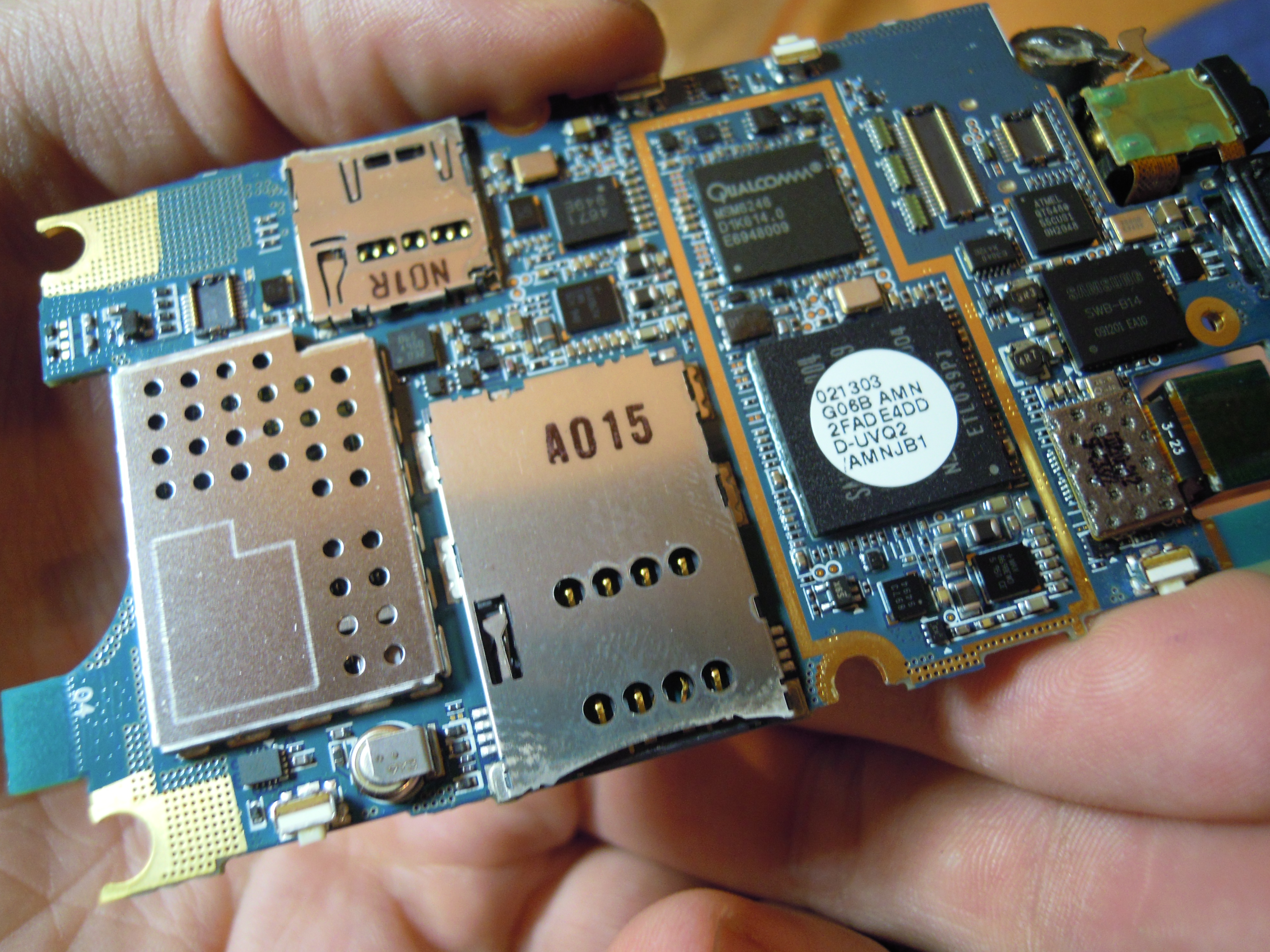 Samsaung Galaxy Spica motherboard